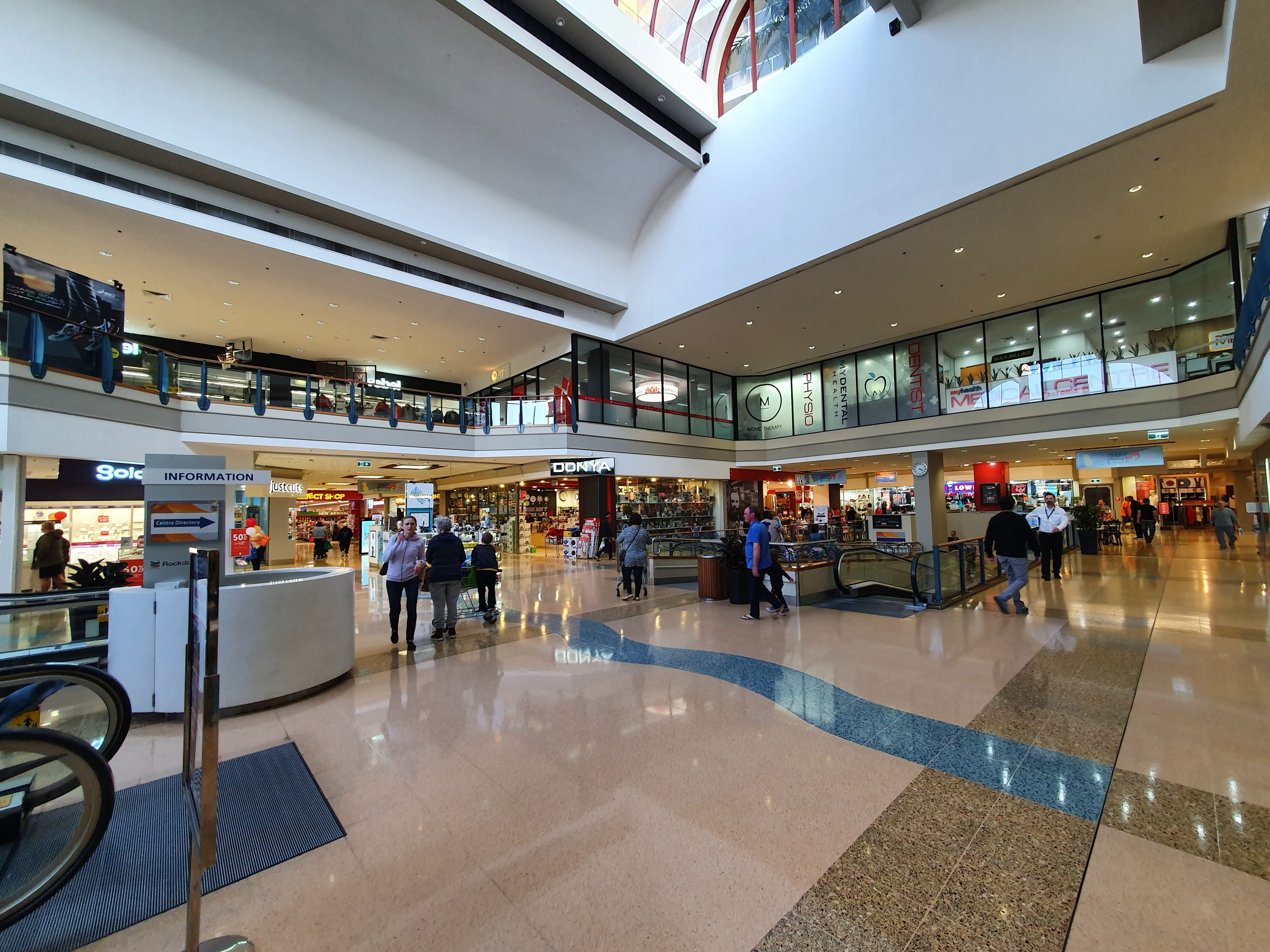 Inside the Rockdale Plaza main entrance